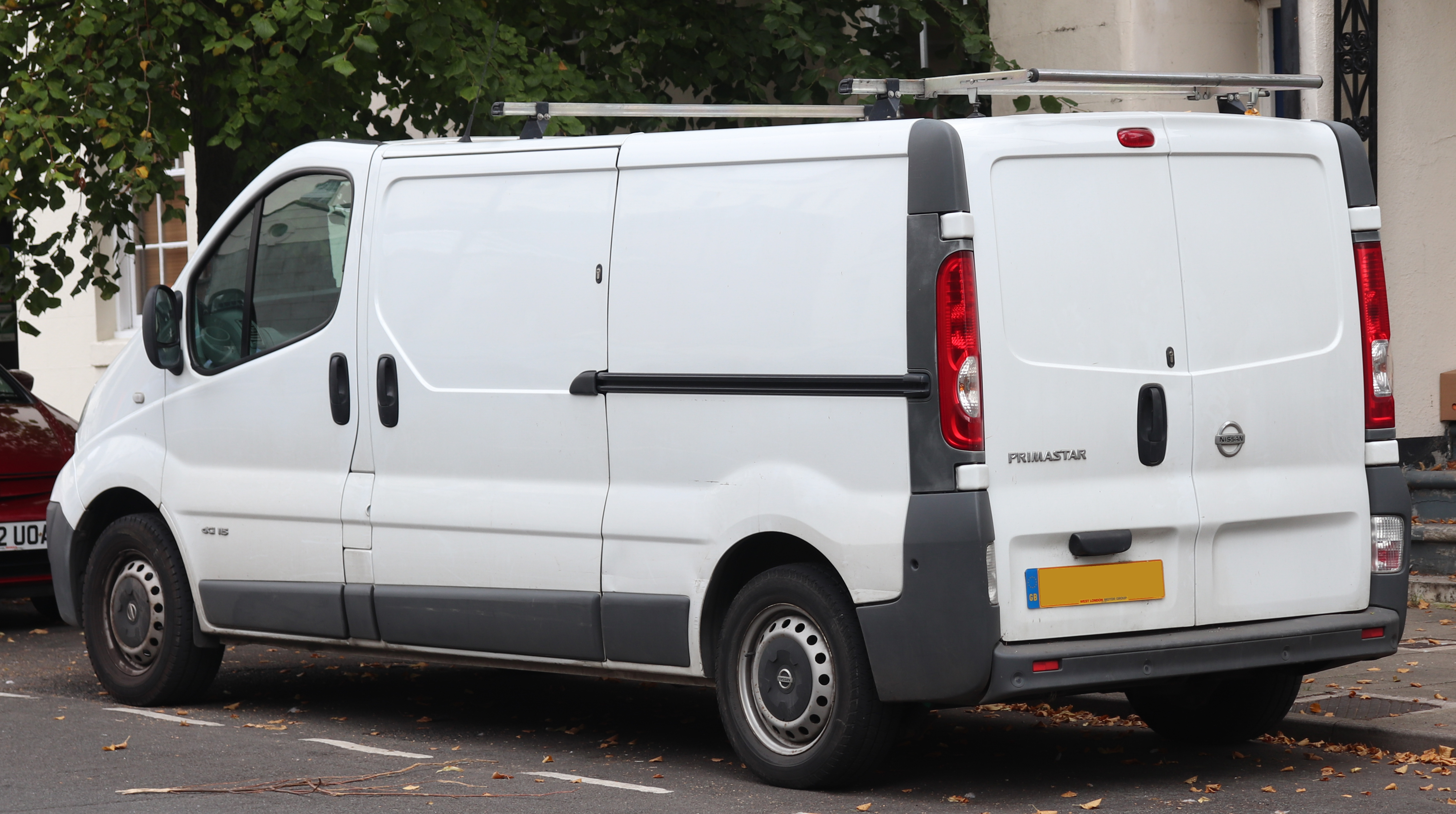 2012 Nissan Primastar SE LWB DCi 2.0 Rear Taken in Leamington Spa